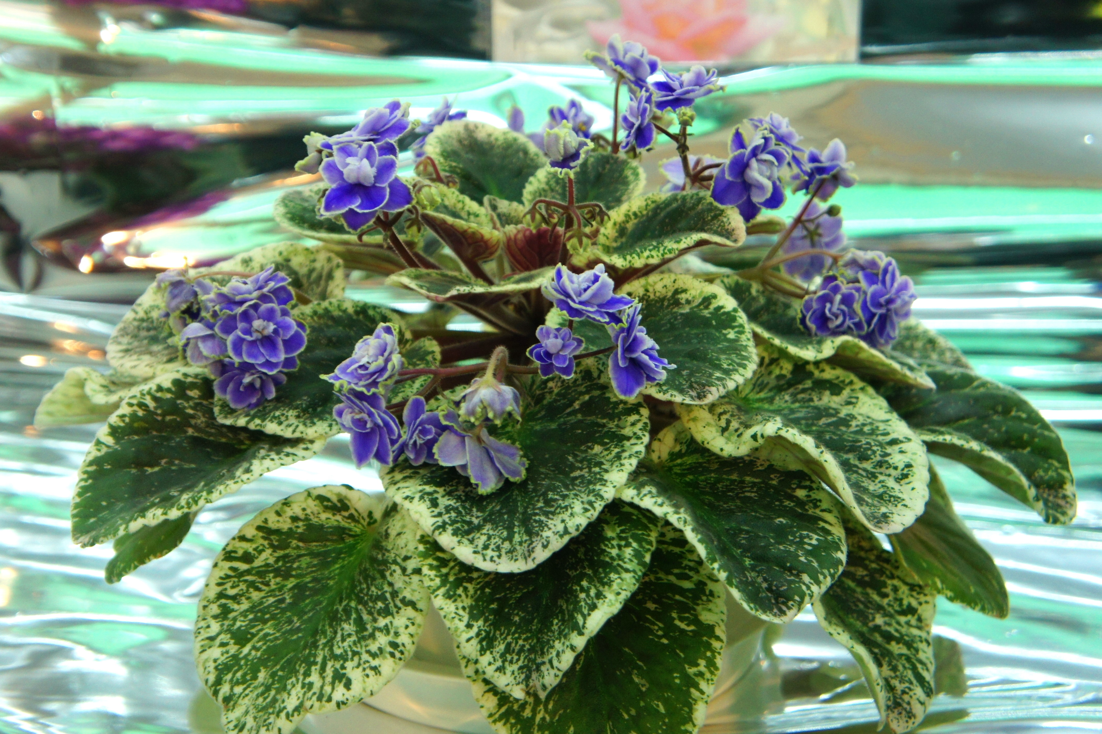 A pot of Saintpaulia cultivar (African violet). Photo taken at the 2011 North District Flower Bird Insect and Fish Show in Hong Kong.